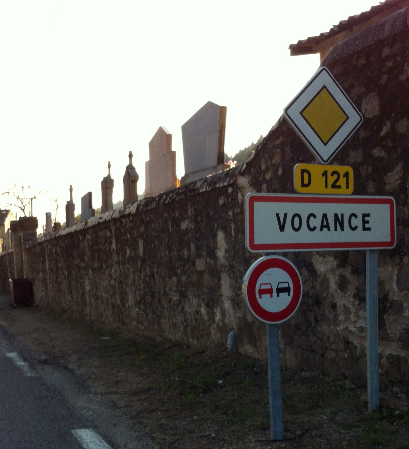 City limit sign of Vocance.